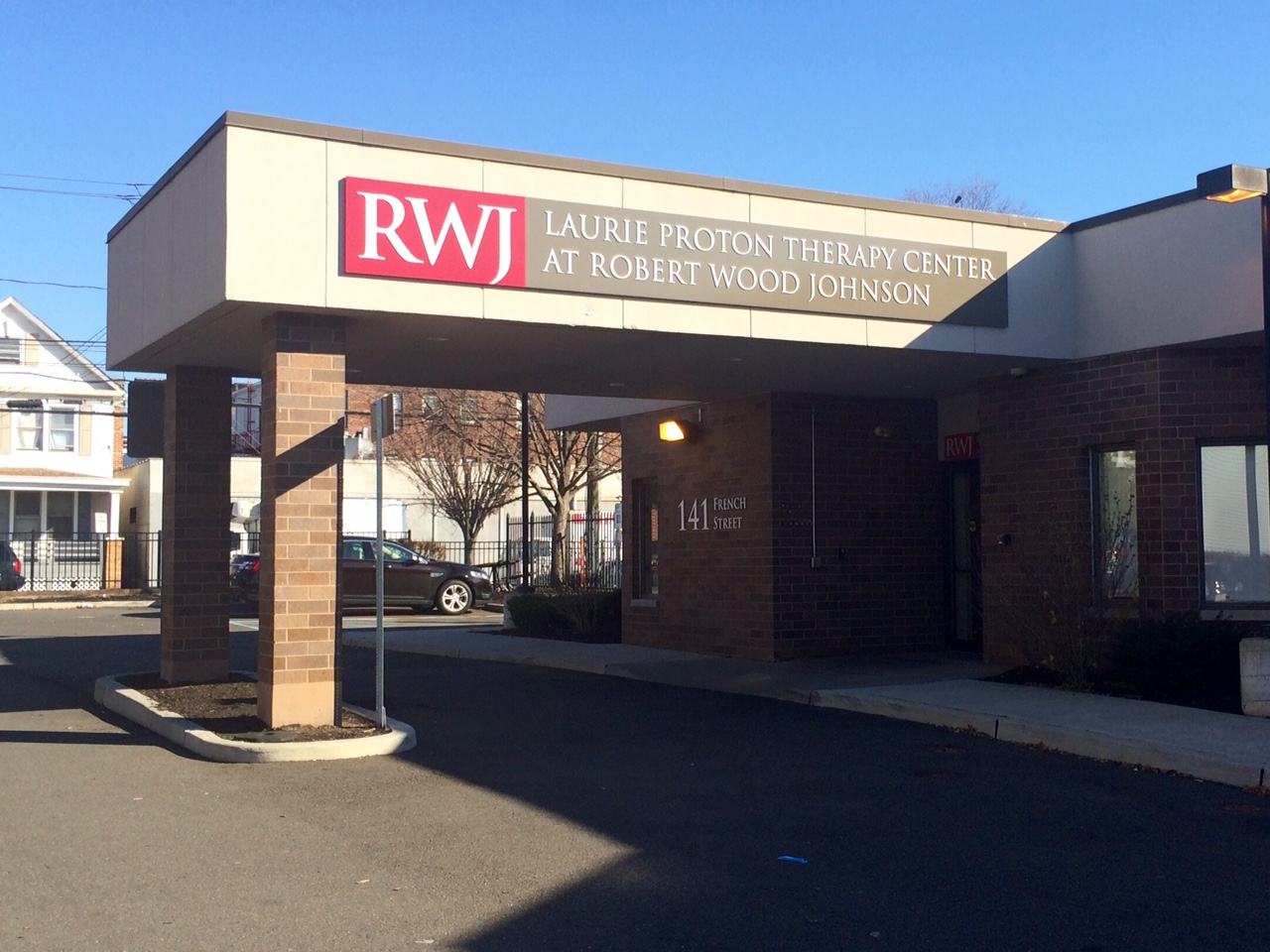 Outside of The Laurie Proton Therapy Center at Robert Wood Johnson University Hospital in New Brunswick, NJ.